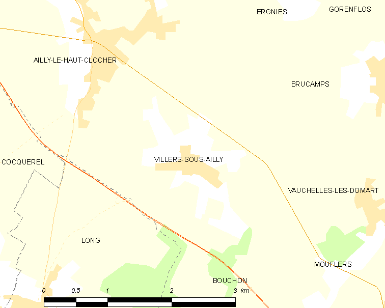 Map of French municipality Villers-sous-Ailly